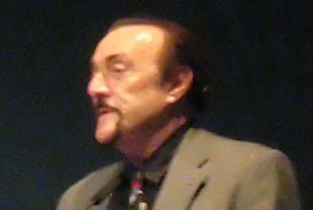 Picture taken during the XXIX Internacional Congress of Psychology, in Berlin. It was taken from a distance, thus the not-so-good quality of the image.